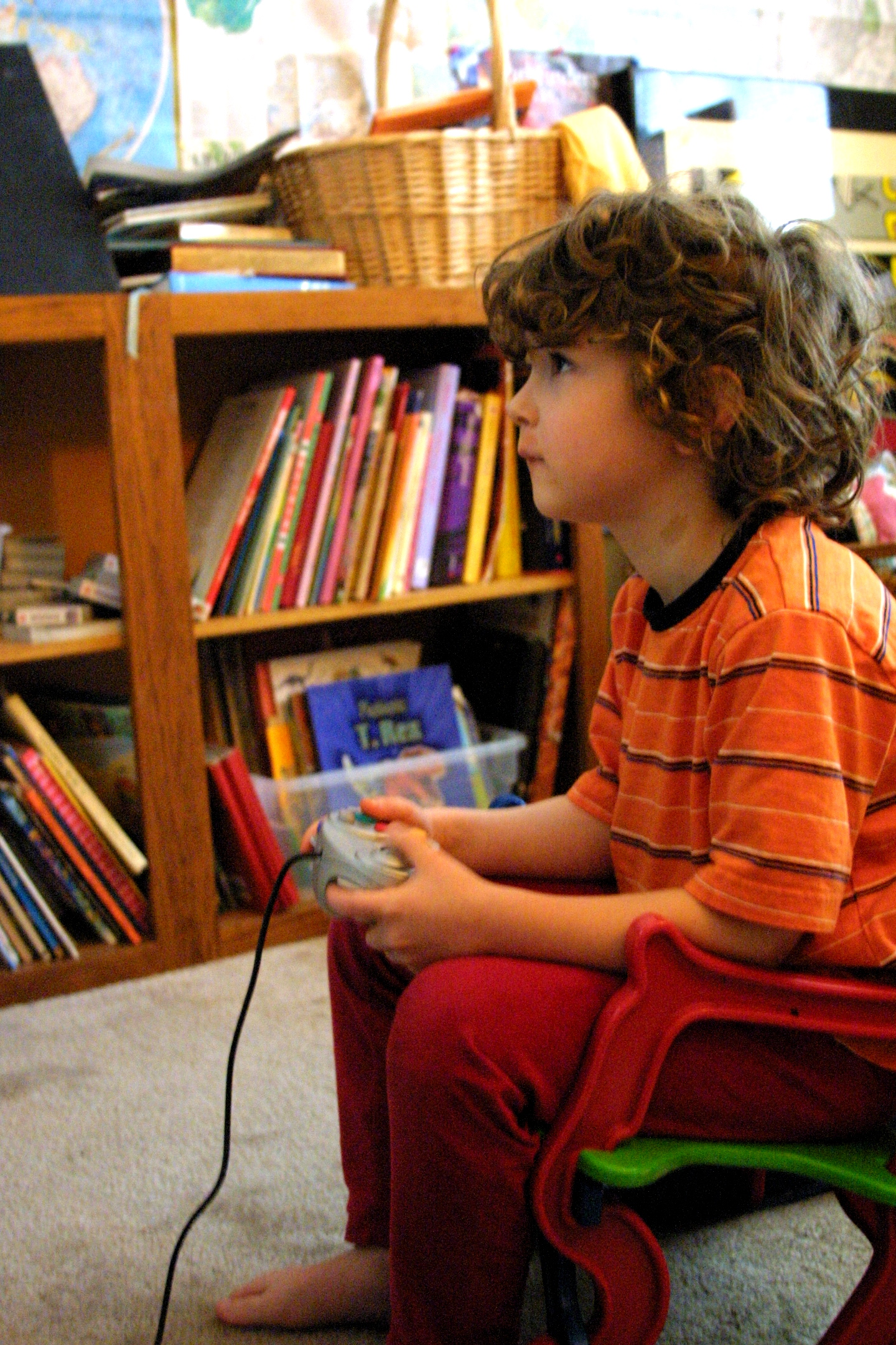 Young person playing with a GameCubeIMG_9887